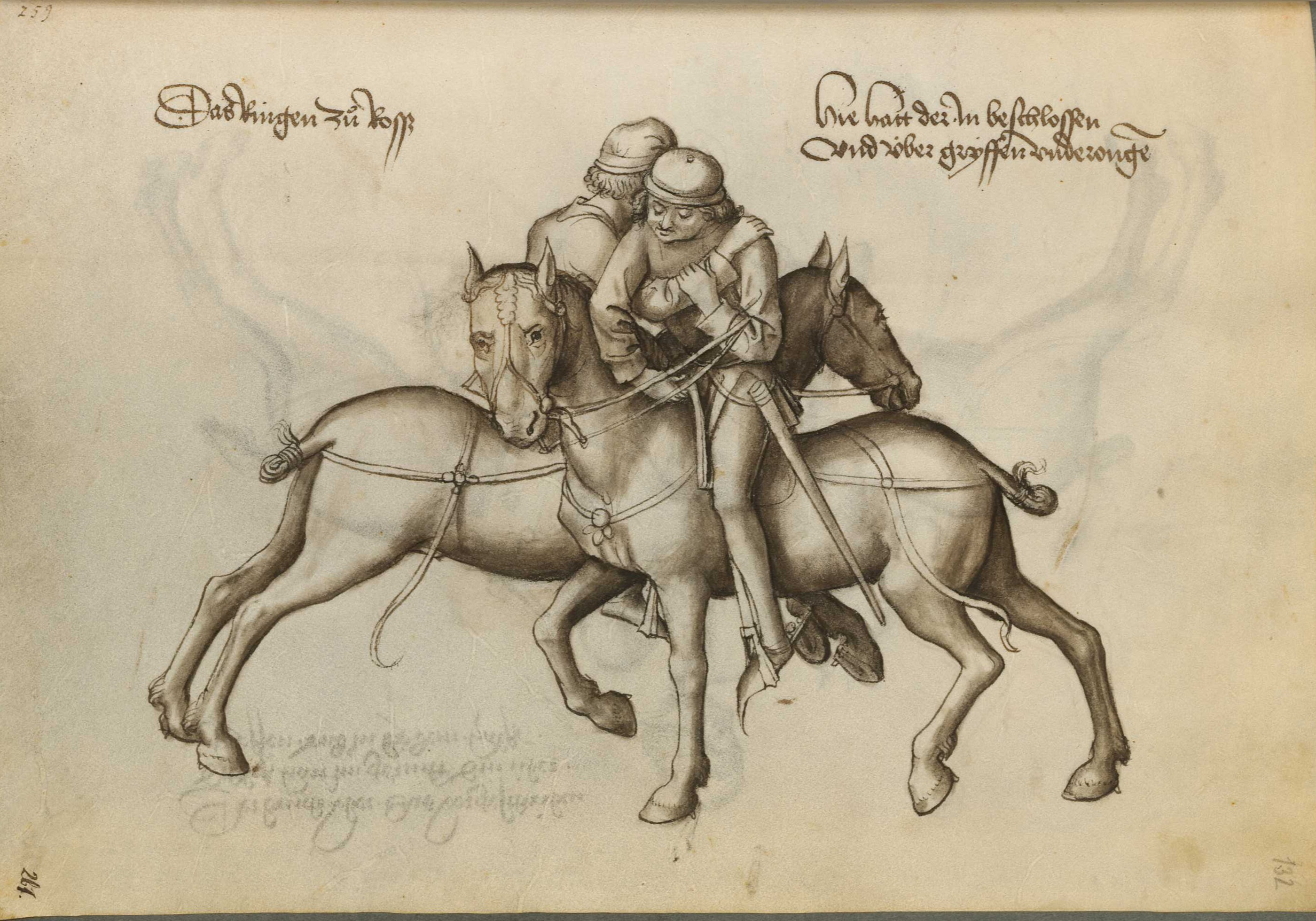 This is a scan of the historical Fechtbuch ('fencing book') by German fencing master Hans Talhoffer.